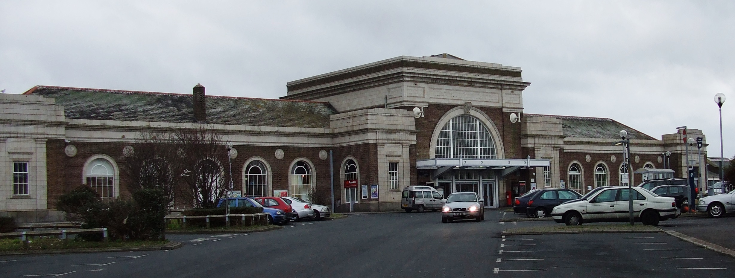 Margate Railway Station